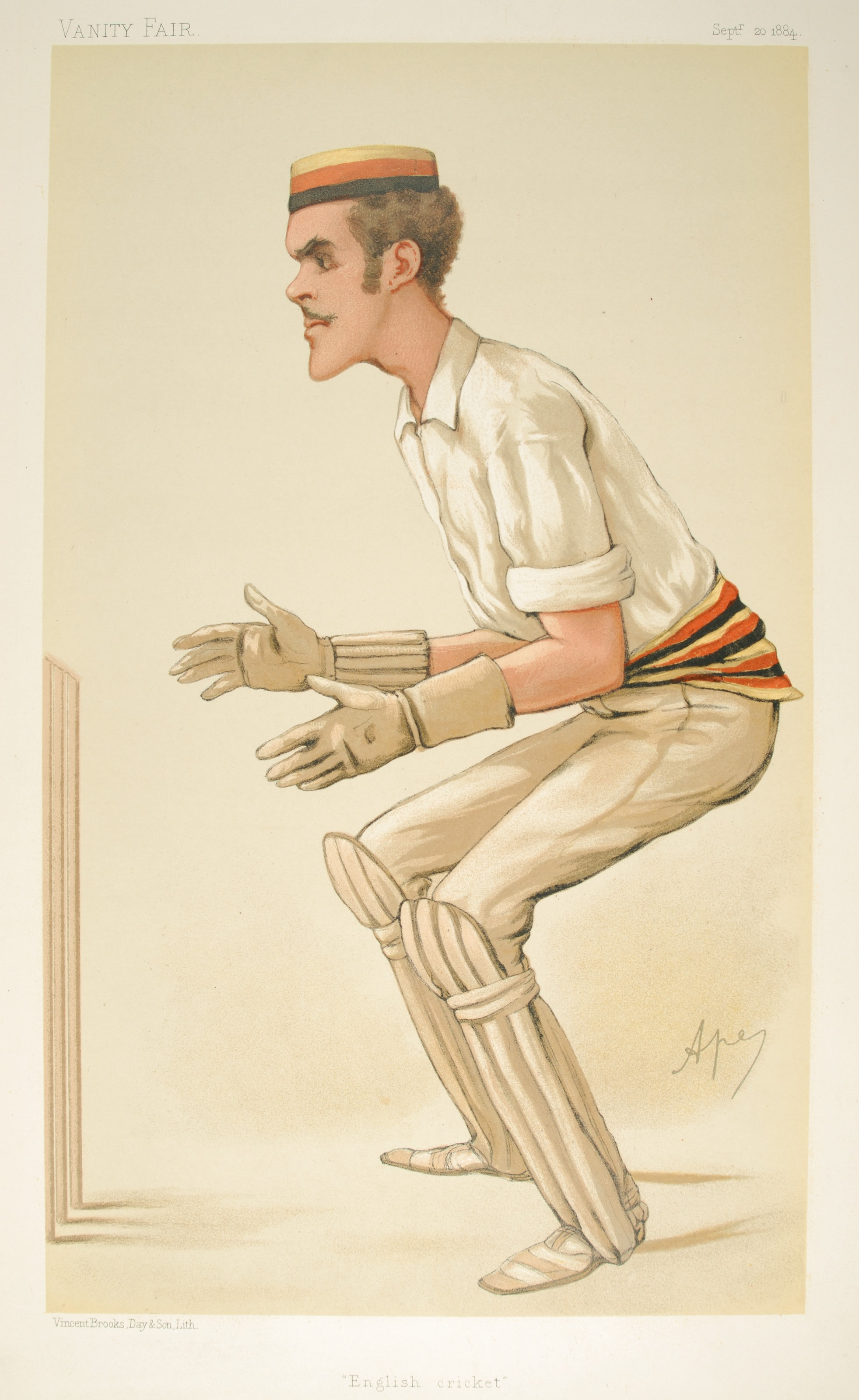 Men of the Day No.314: Caricature of The Hon Alfred Lyttelton keeping wicket in I Zingari colours. Caption reads: "English cricket"